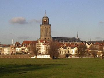 Deventer, with the Lebuinus Church